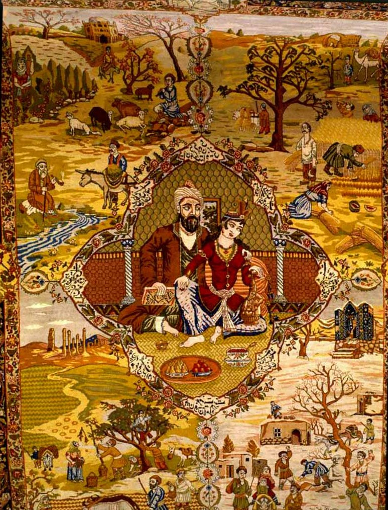 Four seasons azeri rug, XIX c. Tabriz school, State Museum of Azerbaijan Carpet and Applied Art